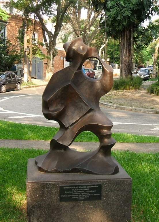 Domenico Calabrone (1928-2000) - The Newsvendor, bronze, 1997.